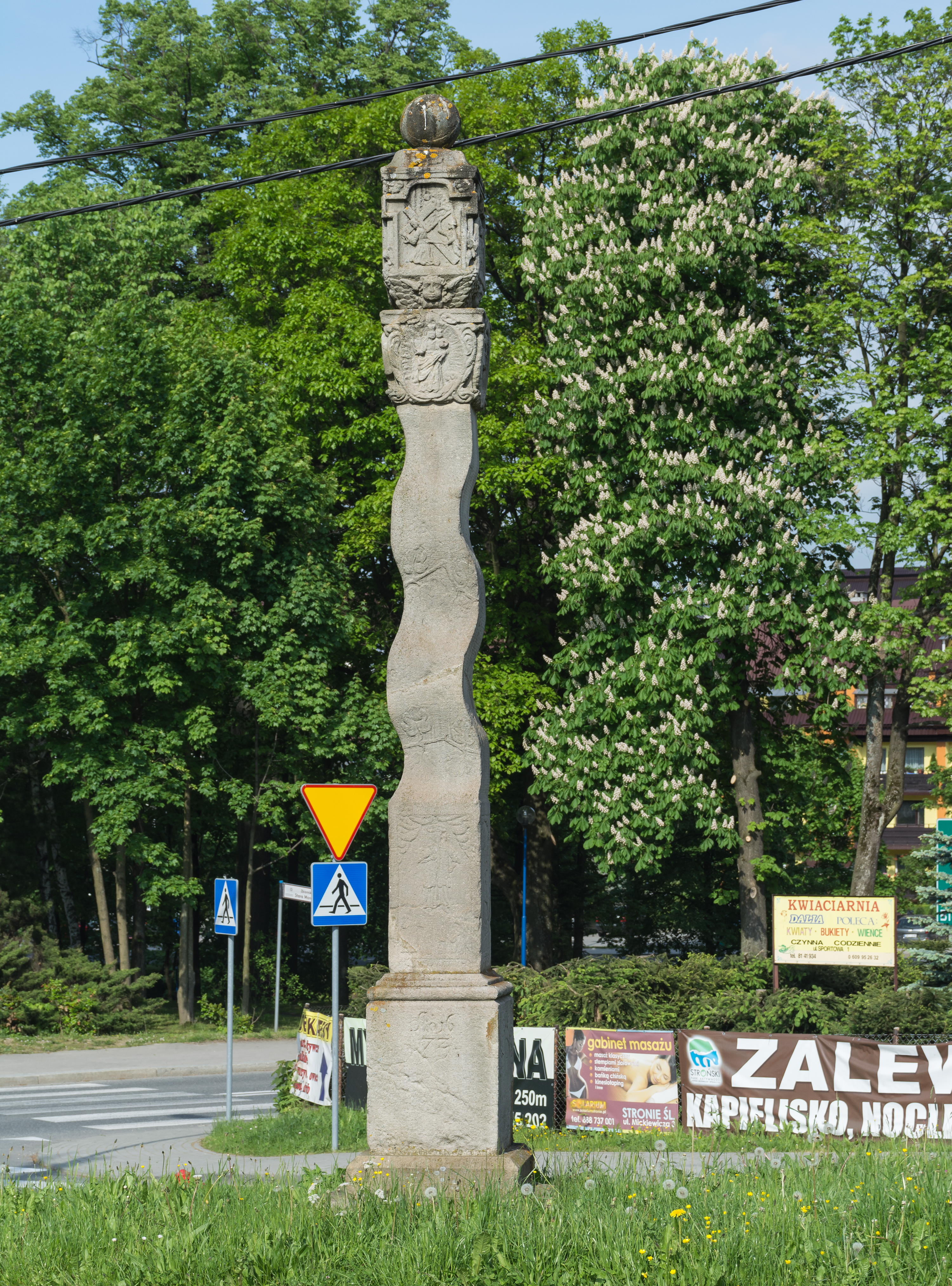 Christ's Resurrection Church in Stronie Śląskie, votive pole